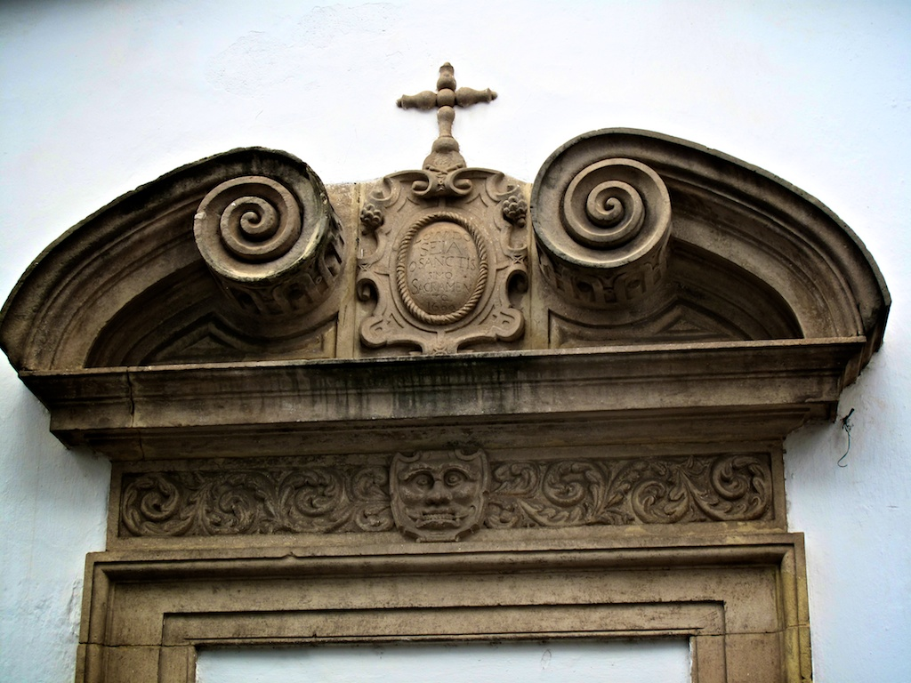 Portal dated 1690 of "Solar Ferrão" palace, now "Abelardo Rodrigues Museum" in the centre of Salvador of Bahia, Brazil